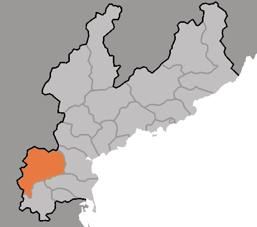 Map of Yodok, Hamgyong-namdo, DPRK, 2006